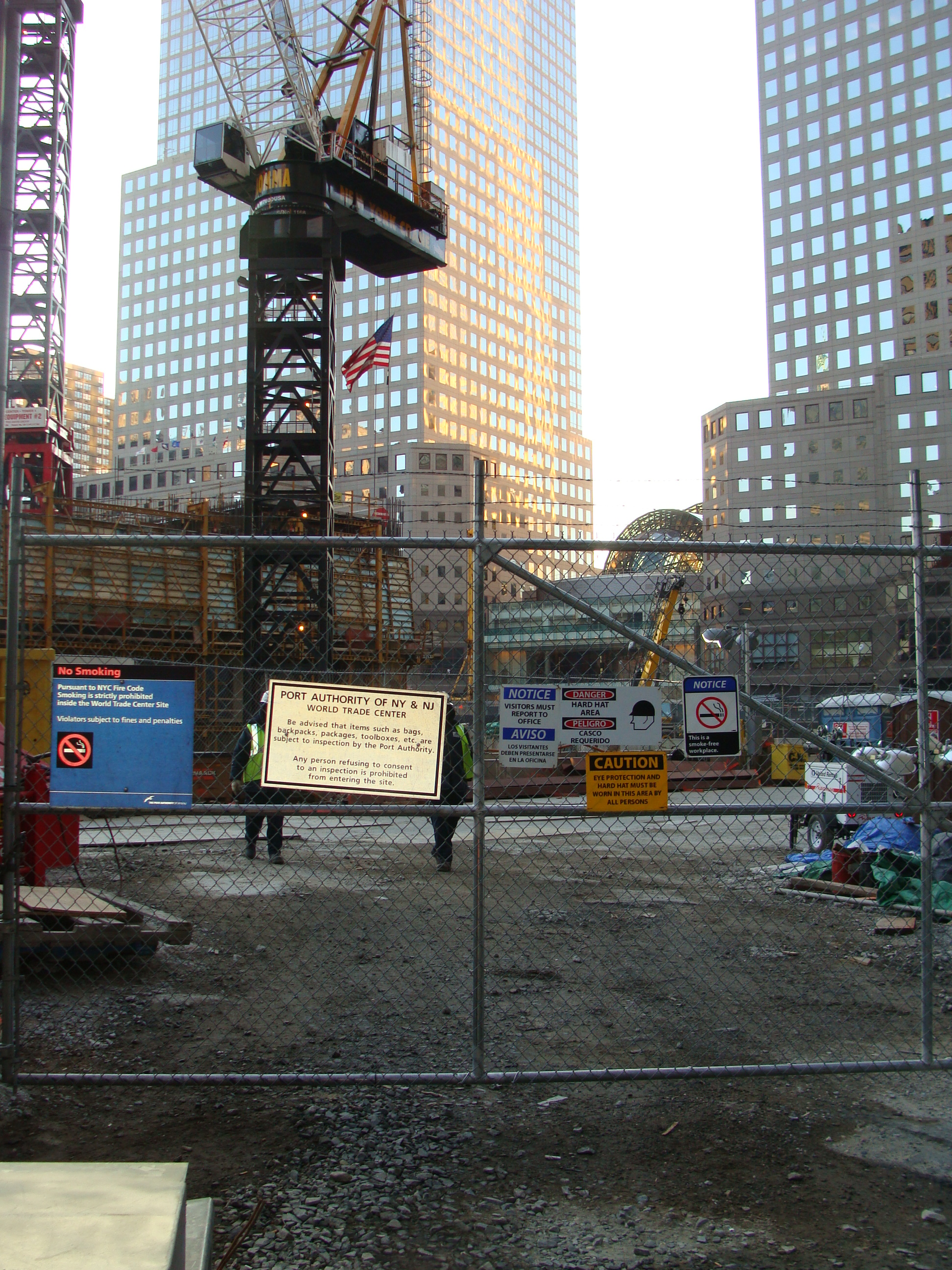 Entrance to the construction zone to "Ground Zero" at the World Trade Center (re)construction site.